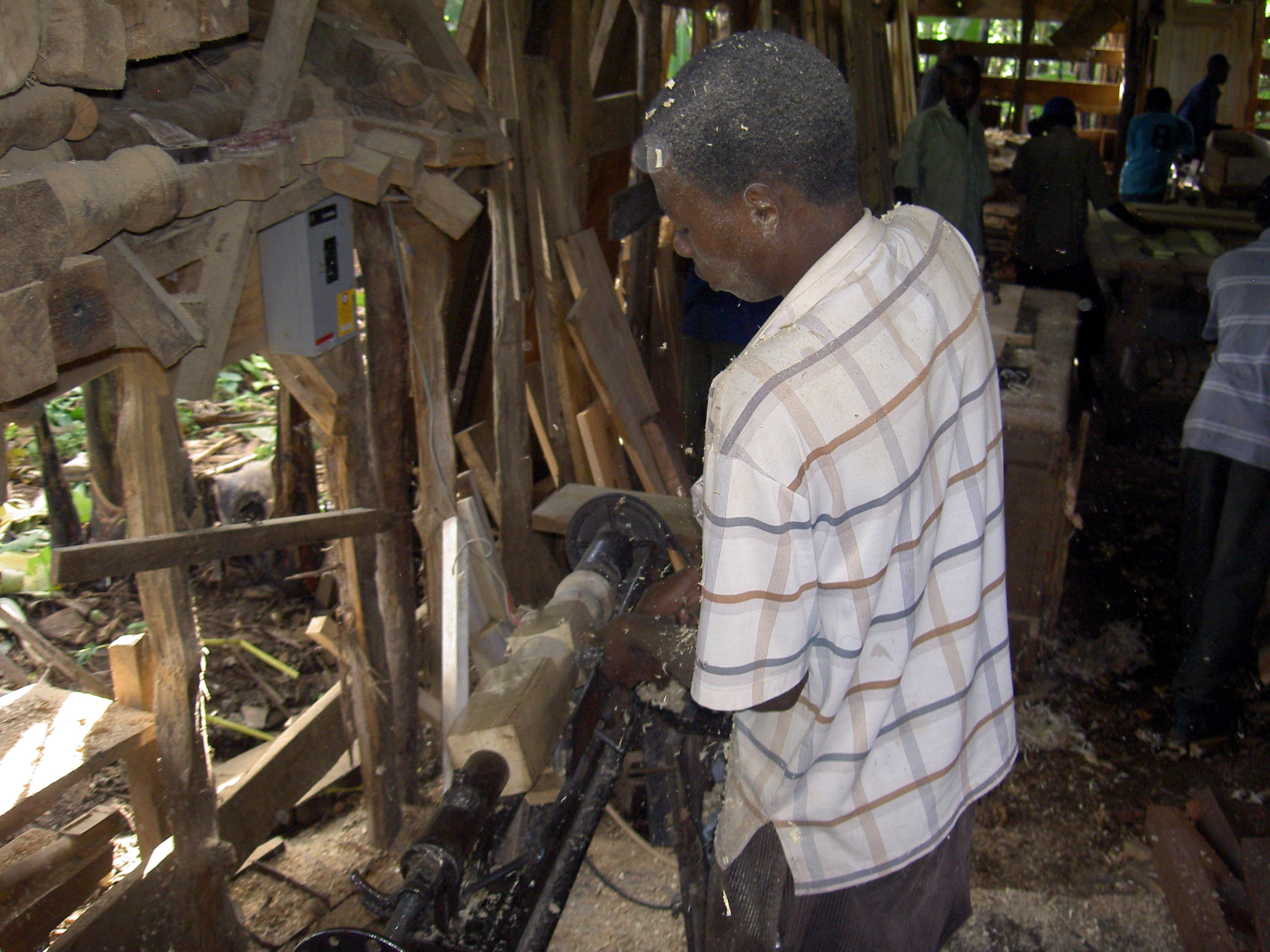 A cabinet maker working on a piece of wood (turning)